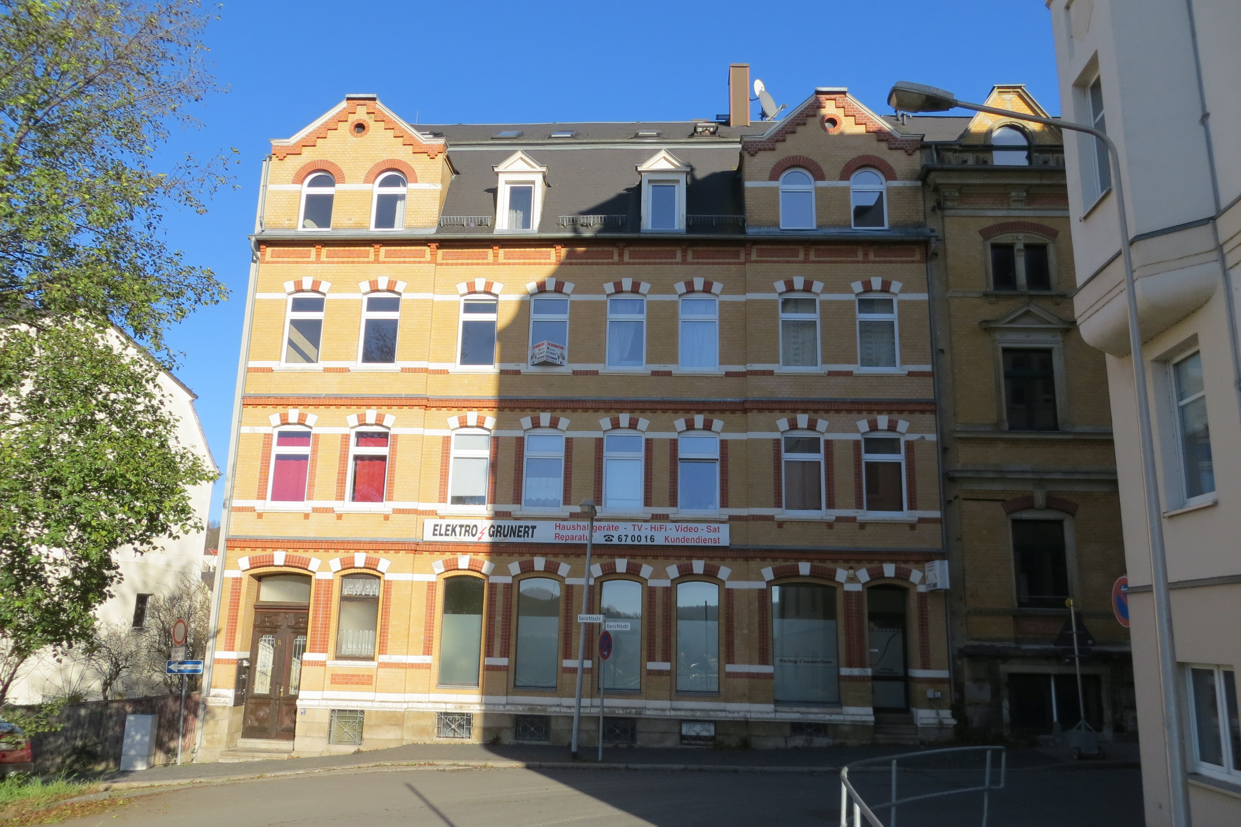 Building No. 11 in Gerichtsstrasse, Greiz